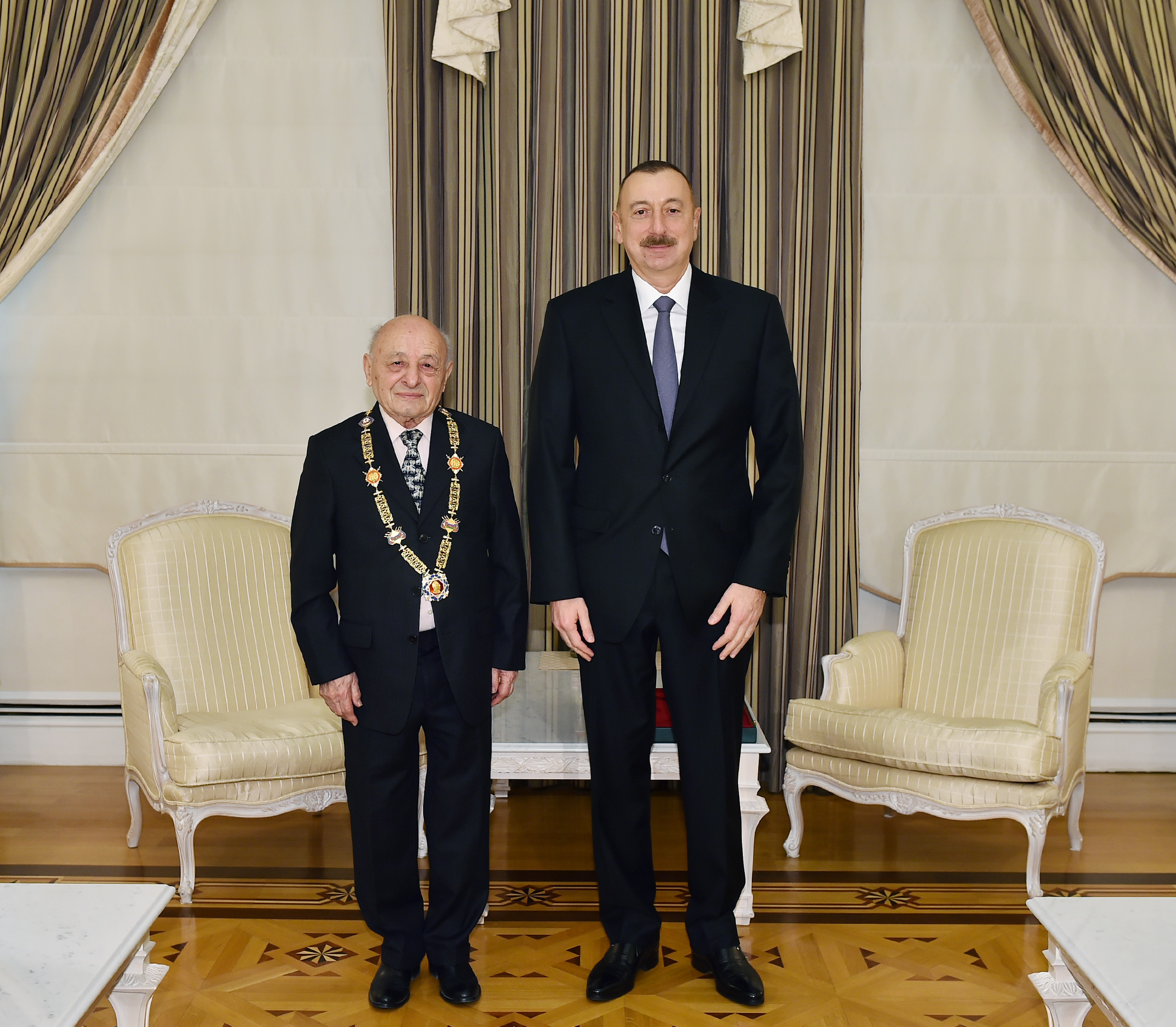 Ilham Aliyev presented "Heydar Aliyev" Order to People`s Artist Omar Eldarov